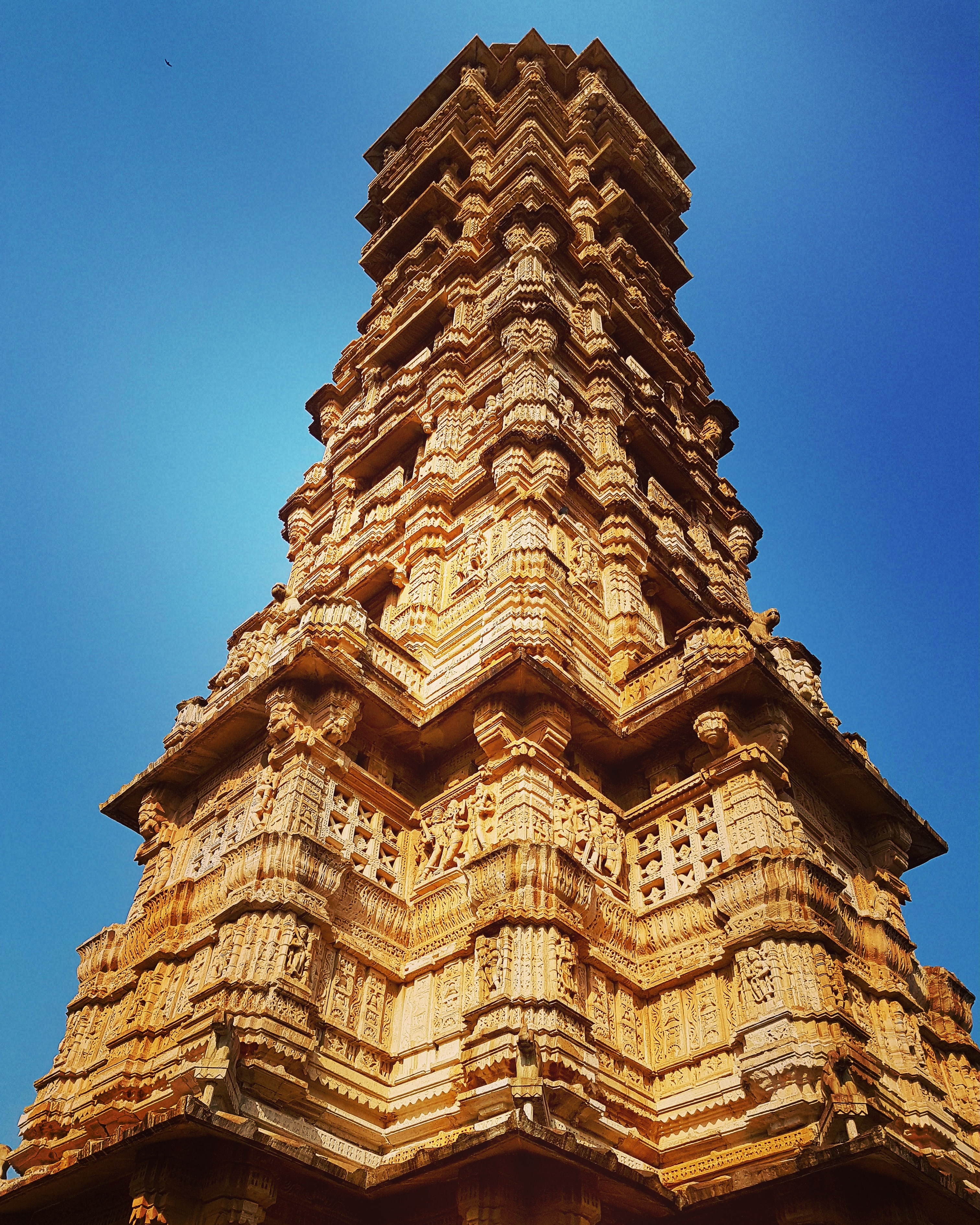 This tower is built on fort which is good example of dexterity